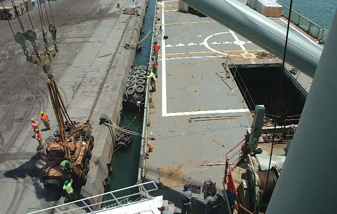 HMAS Tobruk unloading her cargo at a Middle Eastern port in May 2005 Though she has bow and stern loading and unloading capabilities, the SPOD lacks the facilities the Tobruk needs to pull off this task. Instead, she uses a giant onboard crane to offload 20 - Australian Light Armored Vehicles at the SPOD May 9. The crane can lift up to 70 tons of cargo at a time.